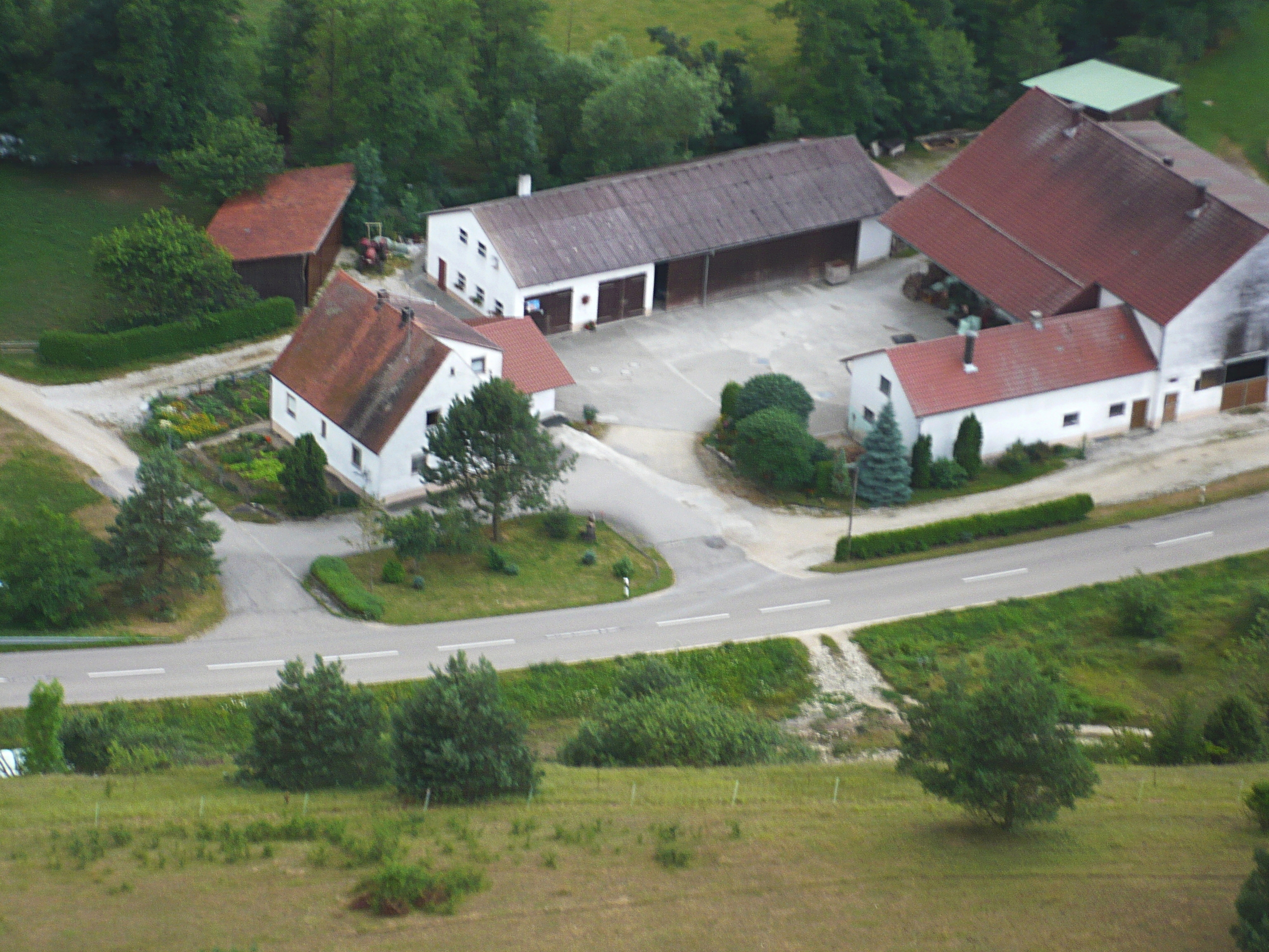 Aerial view of Störzelmühle, part of Rennertshofen